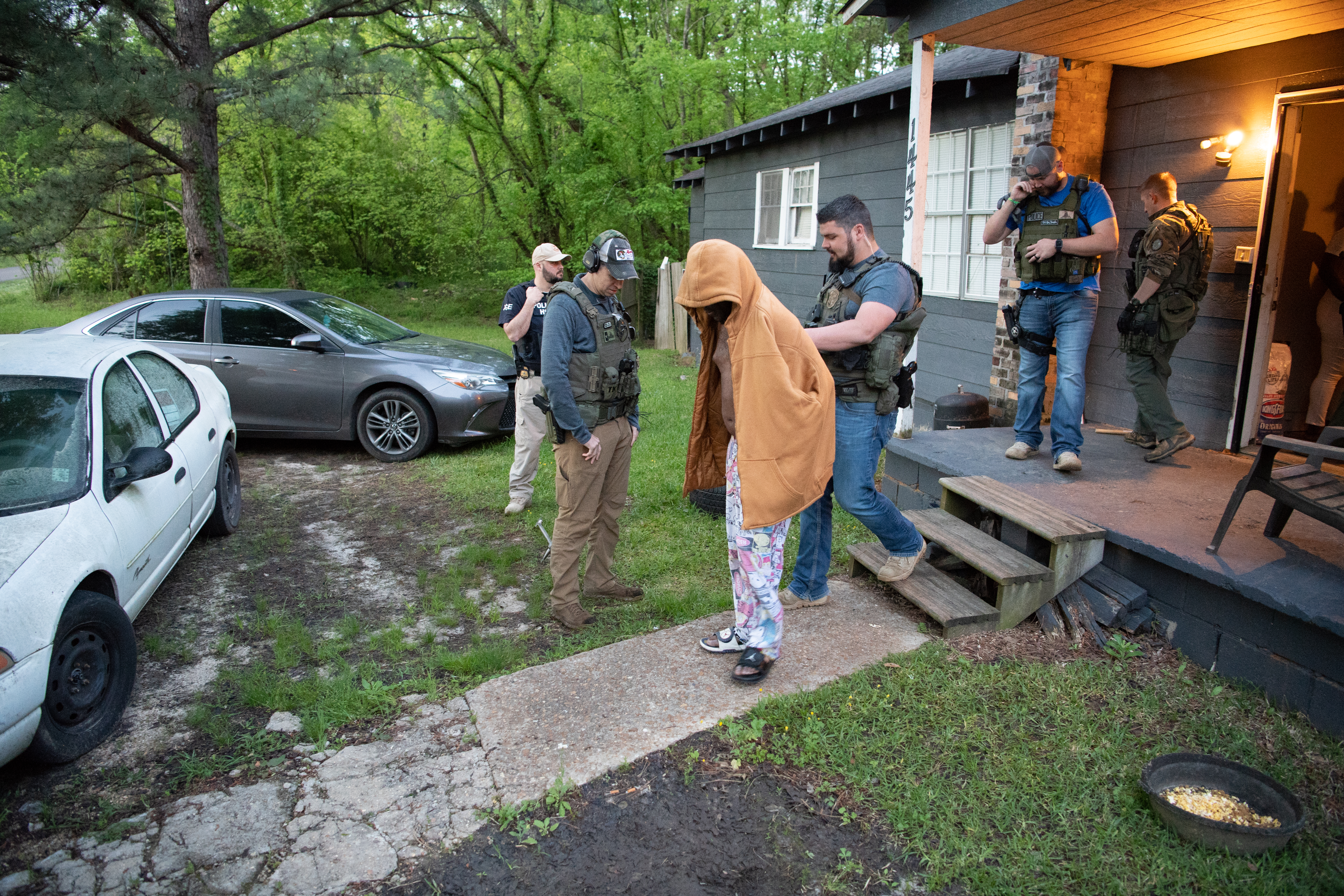 Operation Triple Beam- S/MS The U.S. Marshals led a violence reduction operation in the Southern District of Mississippi from April 9-May 17. More than 270 arrests were made during “Operation Triple Beam.” Approximately 90 of the arrestees were gang members. The U.S. Marshals Gulf Coast Regional Fugitive Task Force, along with 20 other federal, state, and local law enforcement agencies, worked to target and arrest violent fugitives and criminal offenders wanted for homicide, felony assault and sexual assault, illegal possession of firearms, illegal drug distribution, robbery and arson. OTB resulted in the seizure of 50 firearms, including military style assault rifles, illegal narcotics valued at approximately $7,500, and approximately $26,000 in U.S. currency. In the counties of Simpson, Pearl River, Hancock, and Jefferson Davis, approximately 300 registered sex offenders were individually checked for compliance, resulting in approximately 20 arrests for sex offender registry violations. Law enforcement efforts took place primarily in the cities of Jackson, Gulfport, Biloxi, Hattiesburg, and Meridian and focused on fugitive apprehension investigations, firearms and narcotics investigations, gang-related intelligence gathering, and proactive sex offender compliance initiatives. The overarching goal of OTB is to bring relief to the residents of a community by strategically and actively pursuing the gang members and criminals most responsible for the worst crime and violence in that community. Photos by: Shane T. McCoy / US Marshals